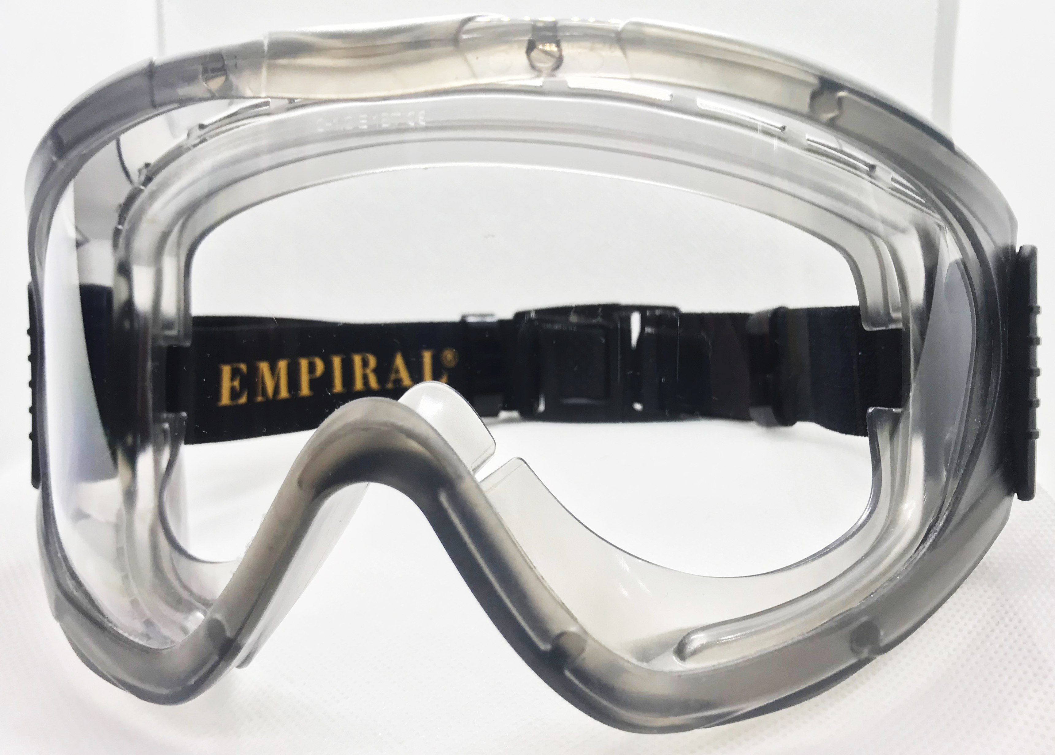 SAFETY INDIRECT-VENTED GOGGLE - VISION GREY Single Poly Bag Packing Style: Specific design on the sides of the goggle body for fitting over prescription glasses. Material: POLYCARBONATE